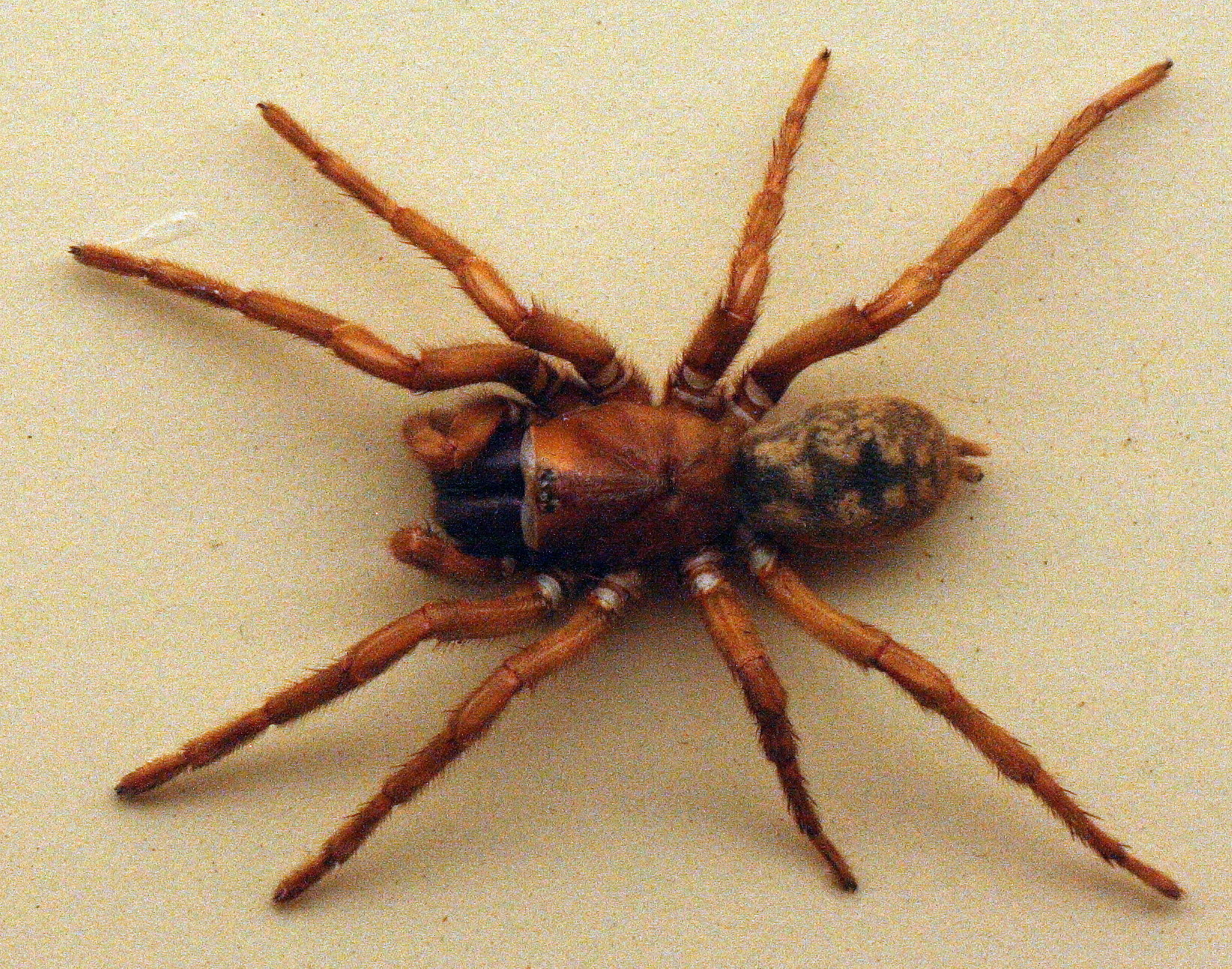 Specimen in the Australian Museum spider display.